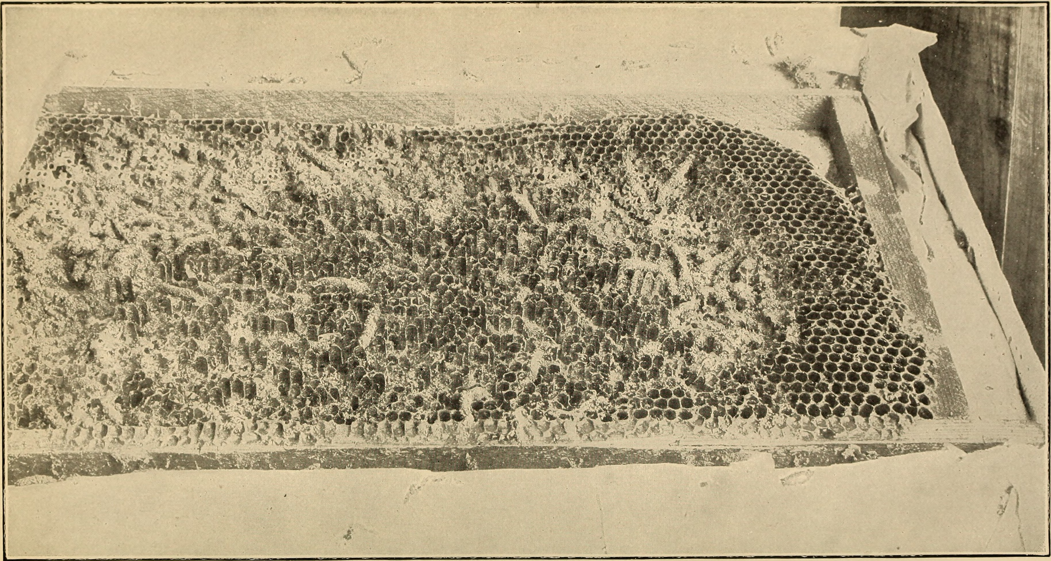 Work of the lesser wax moth (Achroia grisella) Title: Bulletin Year: 1904 (1900s) Authors: United States. Bureau of Entomology Subjects: Insects; Insect pests; Entomology; Insects; Insect pests; Entomology Publisher: Washington : G. P. O. Text Appearing Before Image: Jul. 75, Pt. II, Bureau of Entomology. U. S. Dept of Agriculture. Plate III. Text Appearing After Image: '